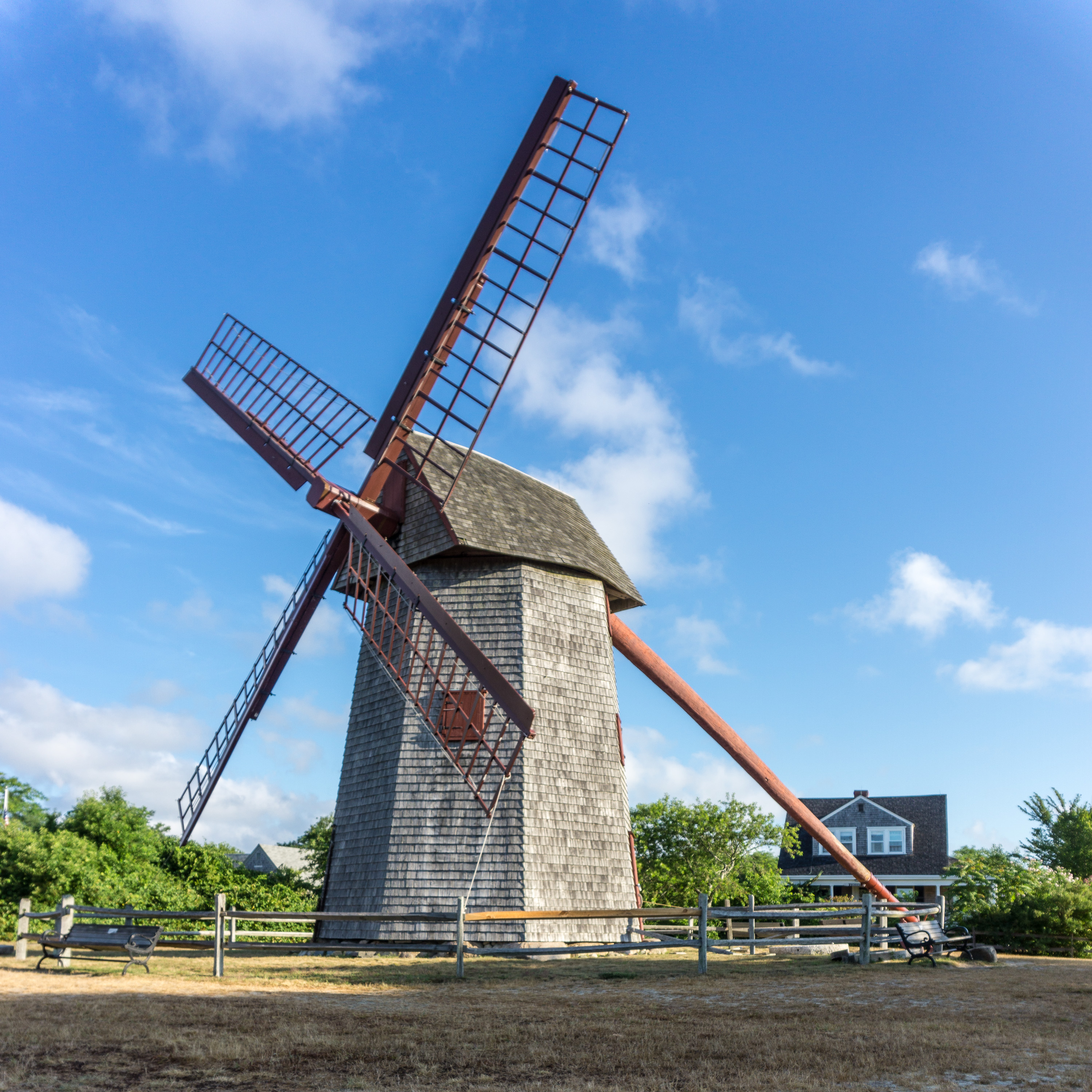 The Old Mill, Nantucket Island, Massachusetts. NRHP 66000772